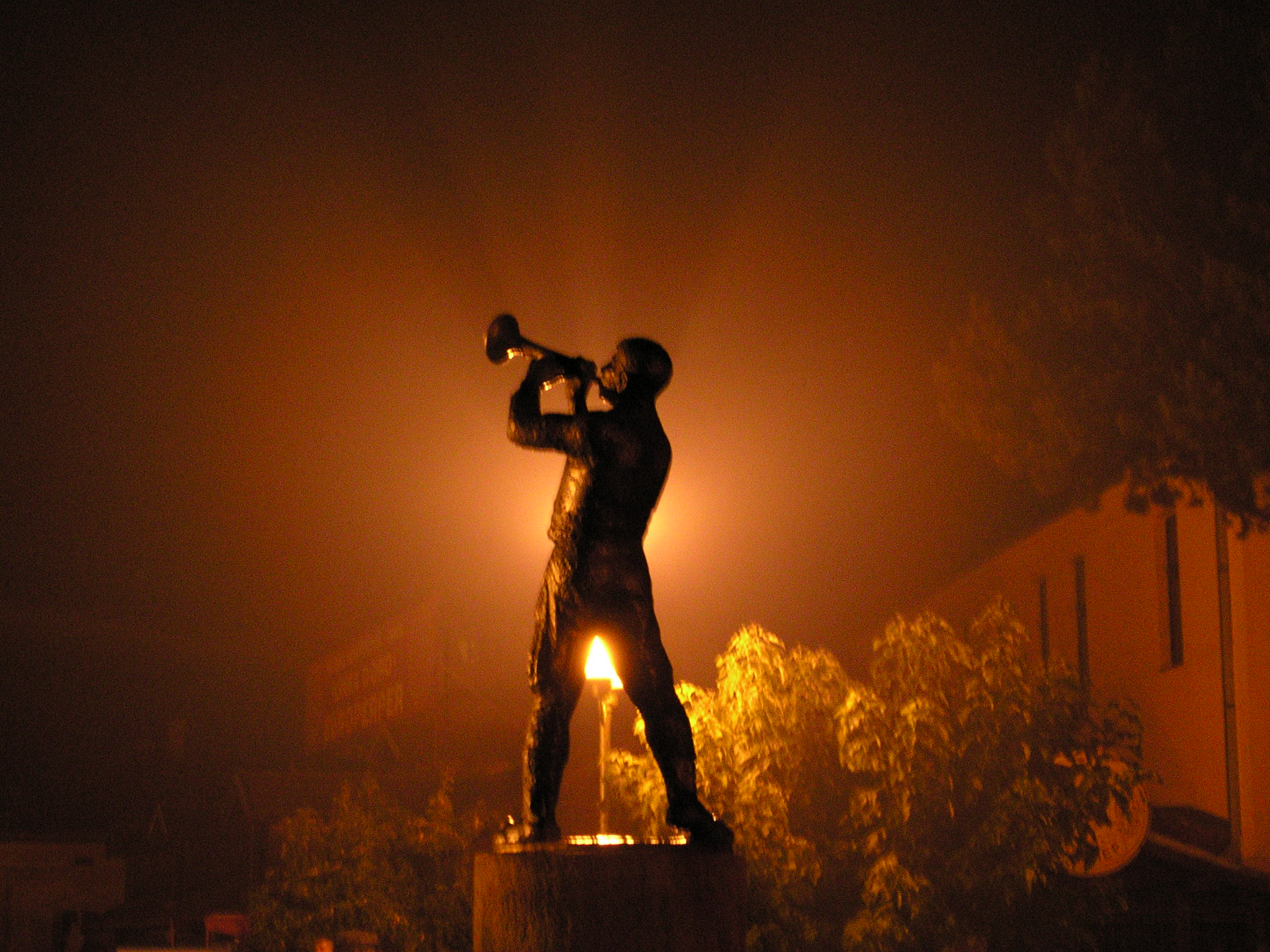 trumpet player statue guca